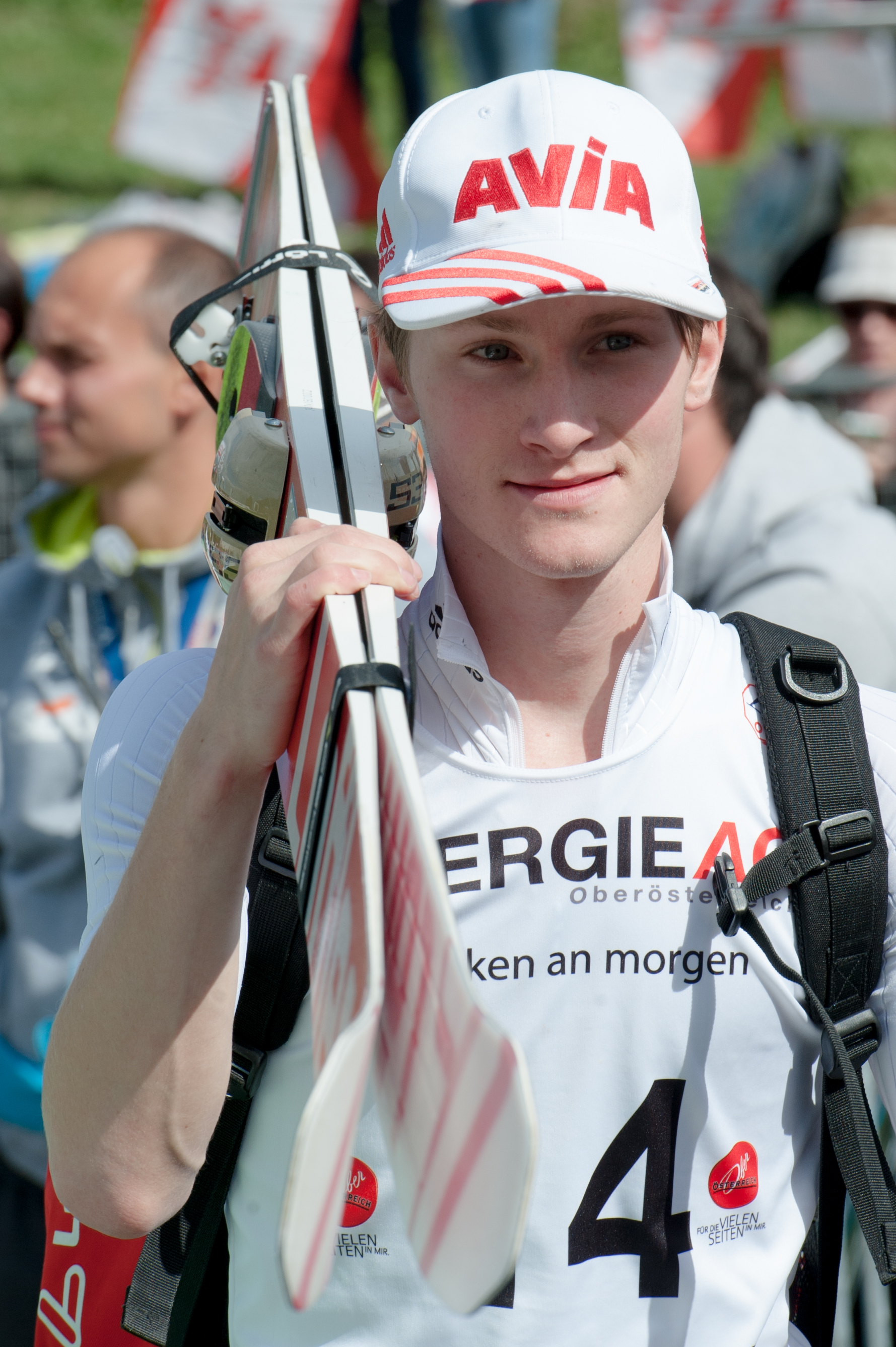 Fis Ski Jumping Summer Grand Prix in Hinzenbach, Upper Austria, 2015-09-27: Marinus Kraus